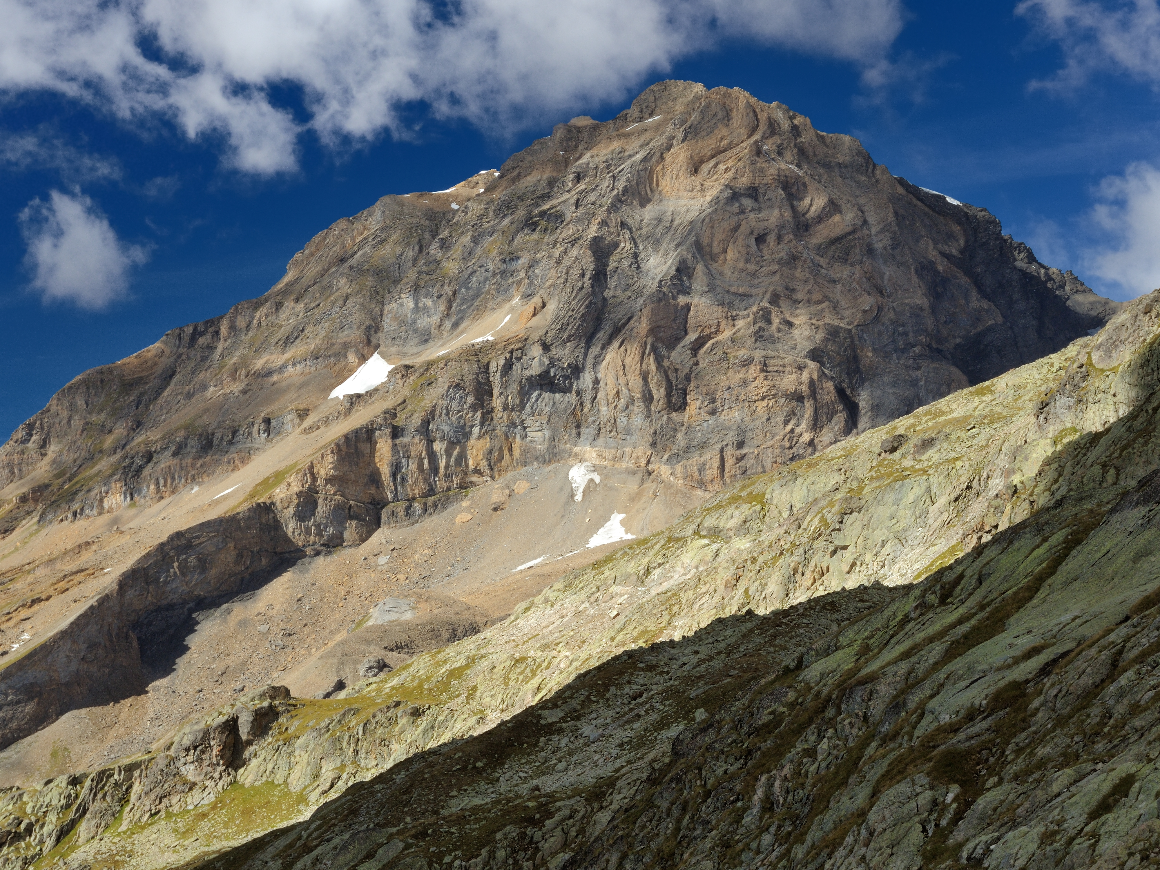 Ferdenrothorn from near the Lötschen Pass